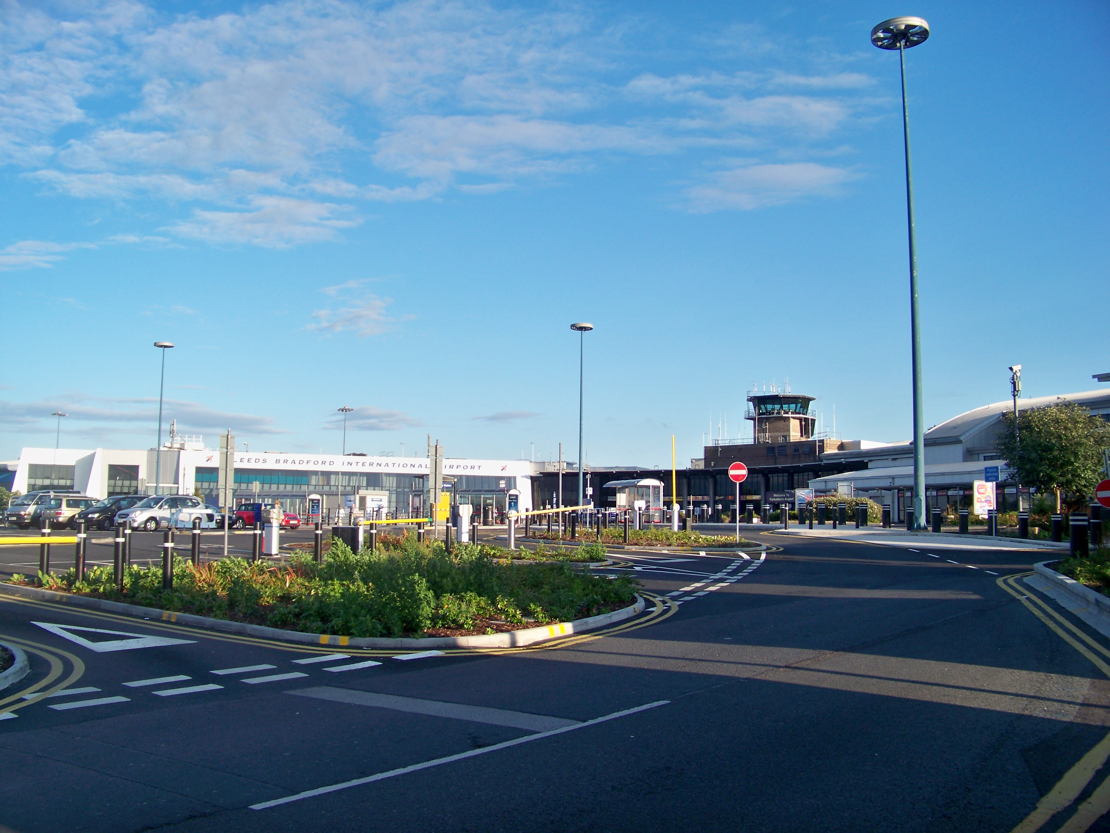 An image of the front of the terminal building of Leeds Bradford International Airport, Leeds, West Yorkshire, UK. Taken on the eveing of Thursday 1st July 2009.